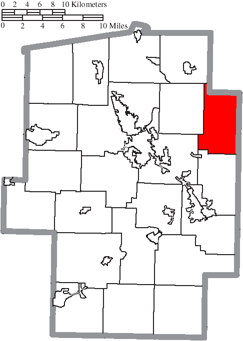 Map of the municipal and township boundaries of Tuscarawas County, Ohio, United States, as of the 2000 census, with the location of Warren Township highlighted. Township borders are shown only in unincorporated areas in order to differentiate incorporated and unincorporated areas more clearly.